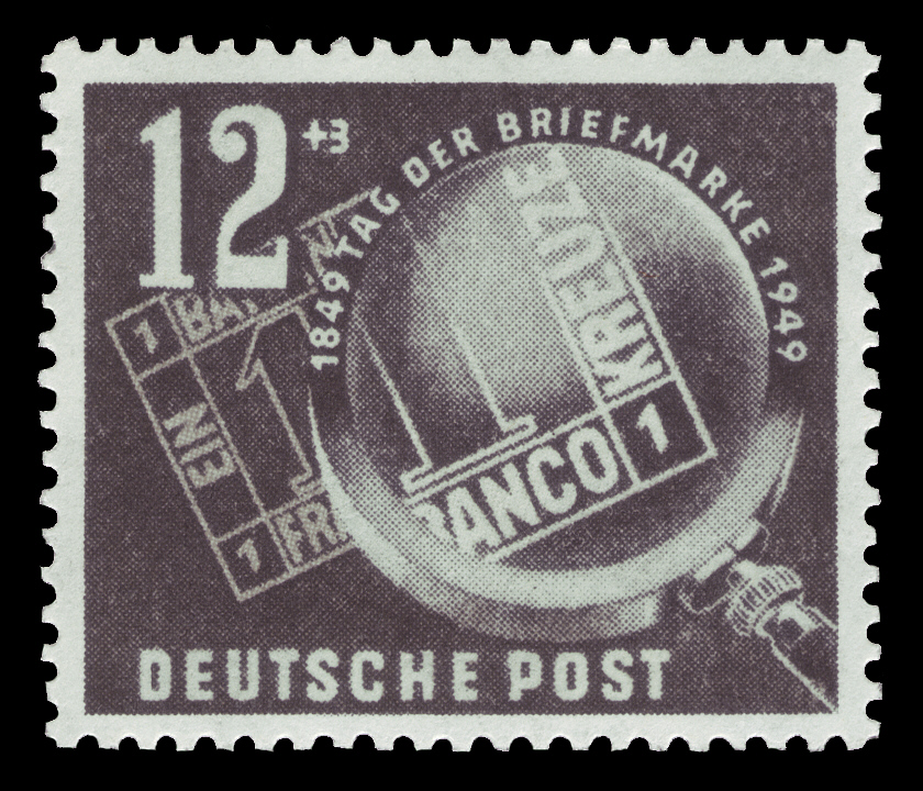 Stamp day Graphic designer:Gravenhorst Ausgabepreis: 12+3 Pf First Day of Issue / Erstausgabetag: 30. Oktober 1949 Michel-Katalog-Nr: 245